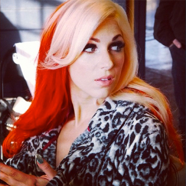 Bonnie McKee Photo for Wikipedia 2013